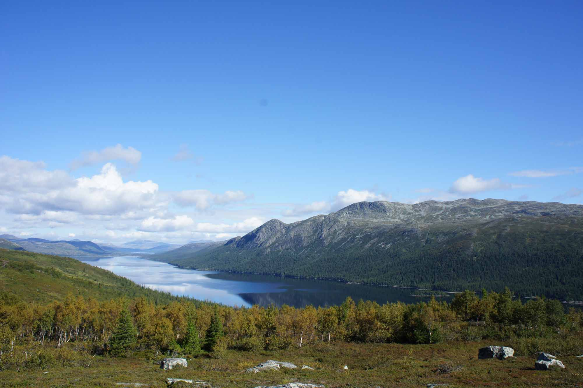 The Lake Stora Mjölkvattnet and the mountain Himmelsraften behind